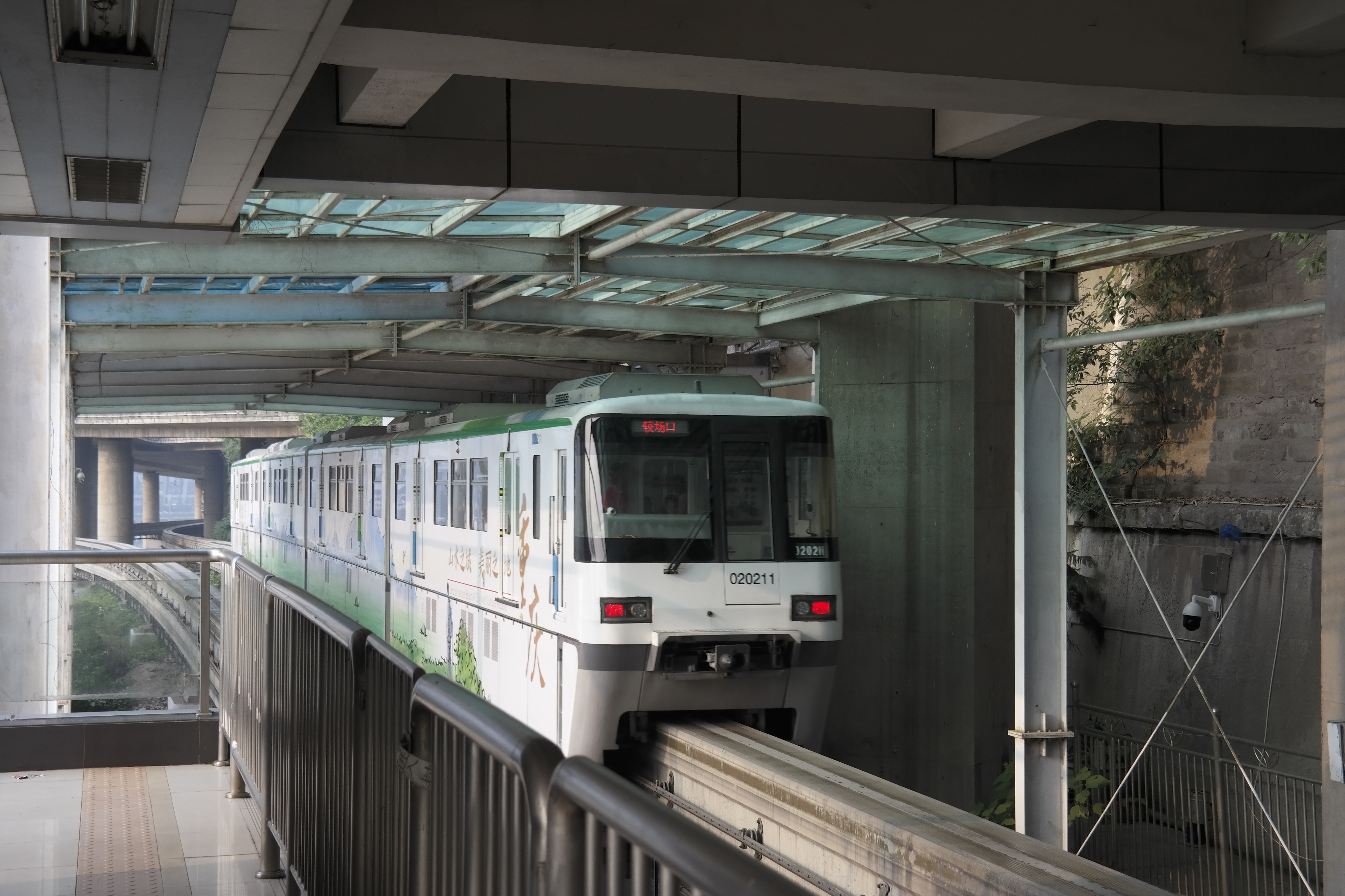 20190526 174931 A